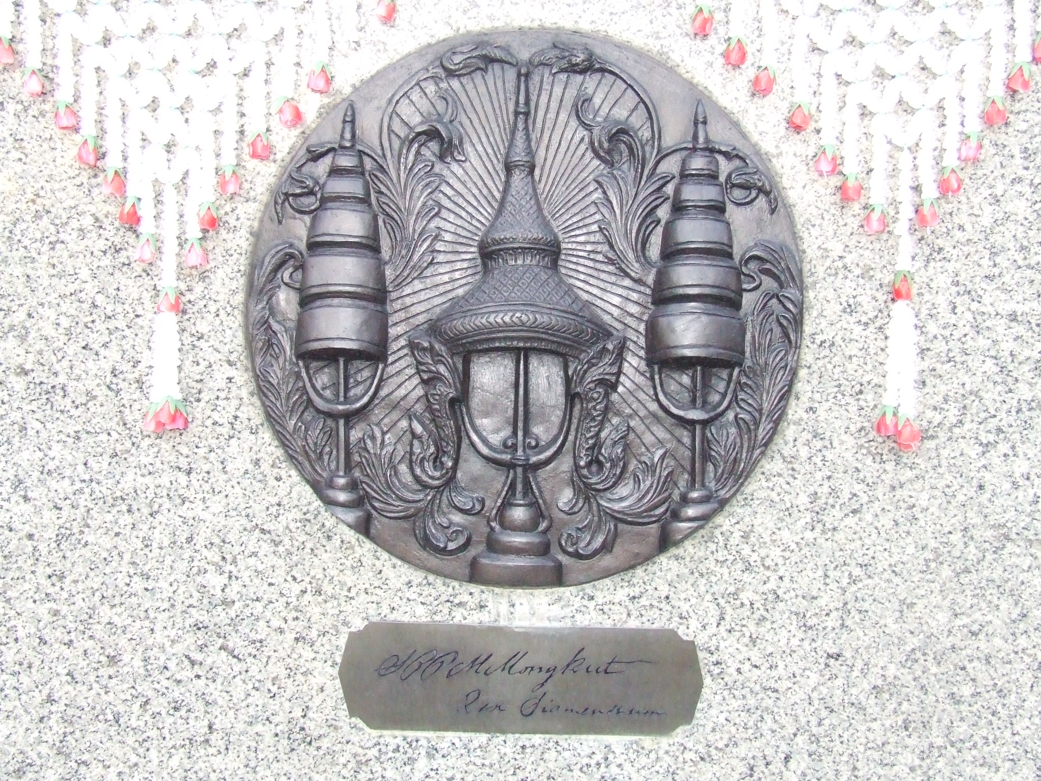 A bas-relief of King Mongkut's privy seal and a plate of his signature, taken from the monument of King Rama IV at the Faculty of Science, Khon Kaen University, Thailand.